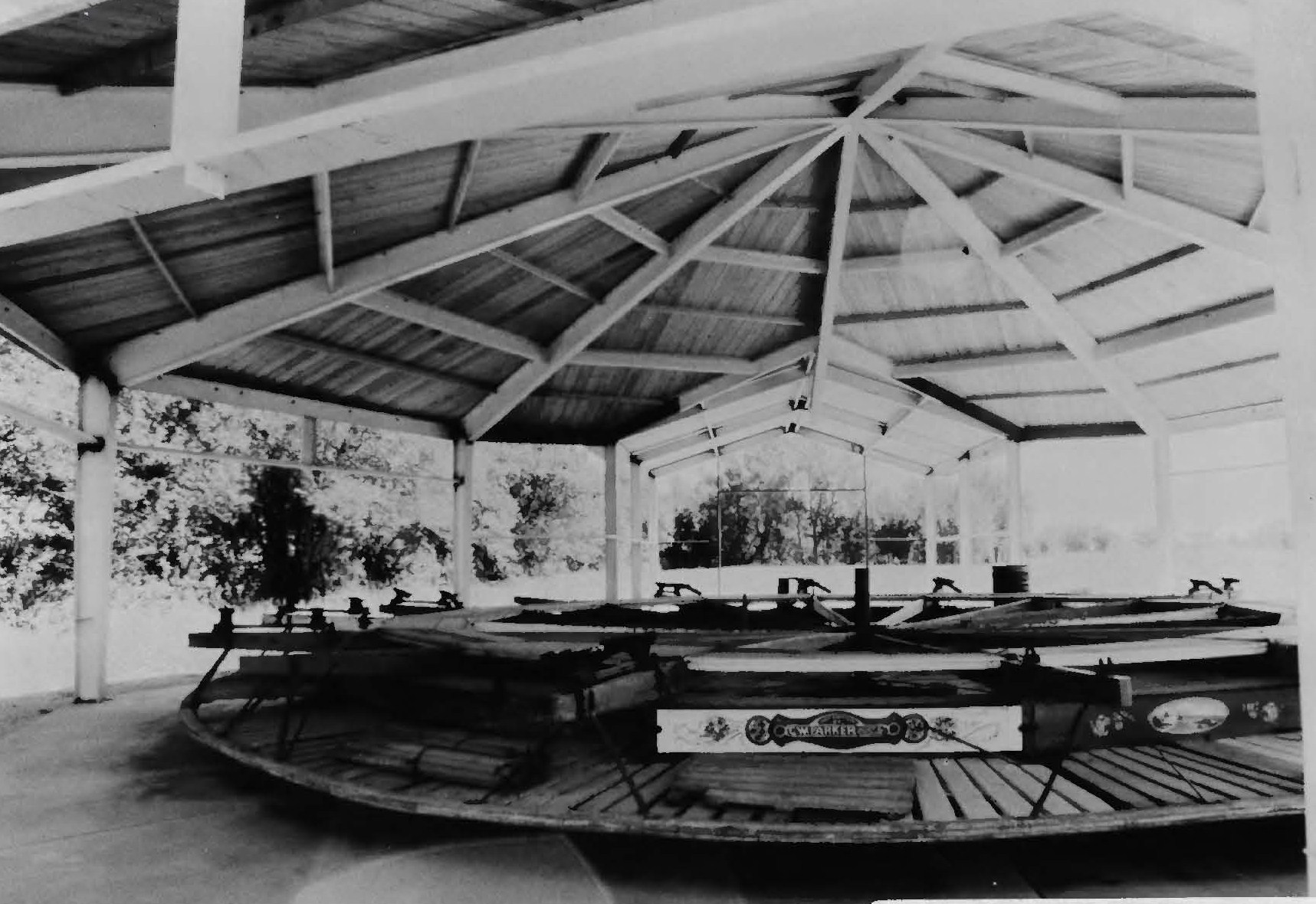 Lander Park Carousel, Abilene (Dickinson County, Kansas) cropped This image or media file contains material based on a work of a National Park Service employee, created as part of that person's official duties. As a work of the U.S. federal government, such work is in the public domain in the United States. See the NPS website and NPS copyright policy for more information. Object location38° 54′ 41″ N, 97° 12′ 31″ W